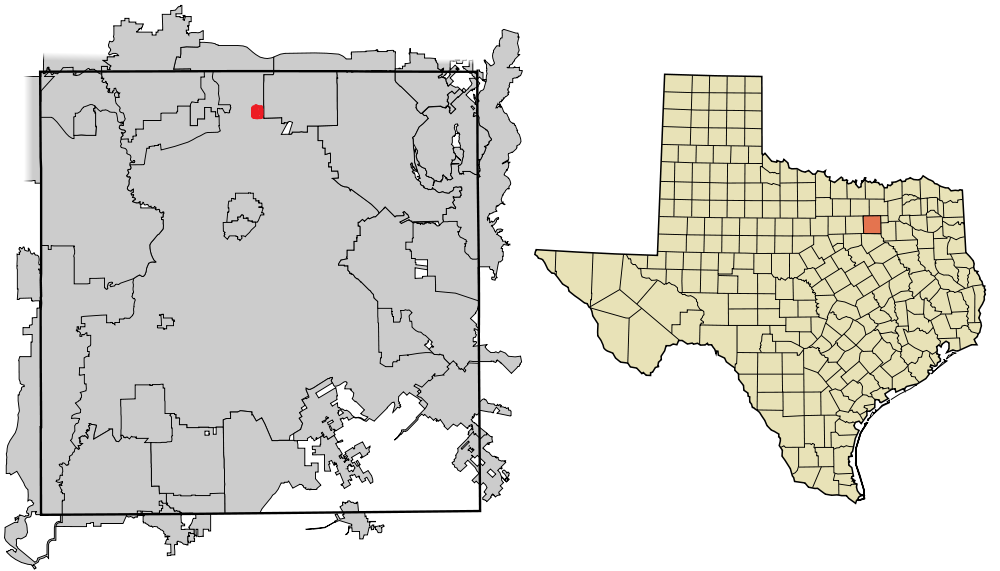 This map shows the incorporated areas in Dallas County, Texas with the former community of Alpha, Texas highlighted. I created it using data from the North Central Texas Council of Governments Maps Website and based on the original Dallas County Texas Incorporated Areas.svg by Ixnayonthetimmay.